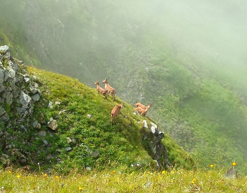 West Caucasian turs in the wild nature. Territory of Caucasus Biosphere Reserve.